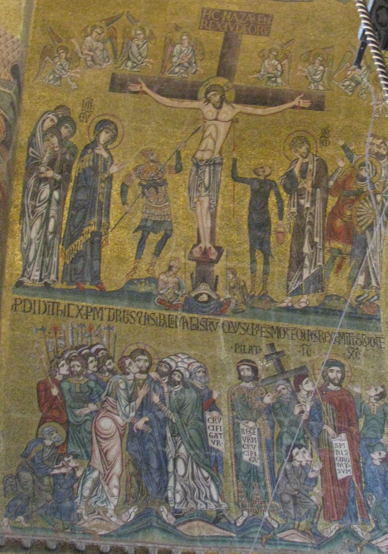 Interior of St. Mark's Basilica